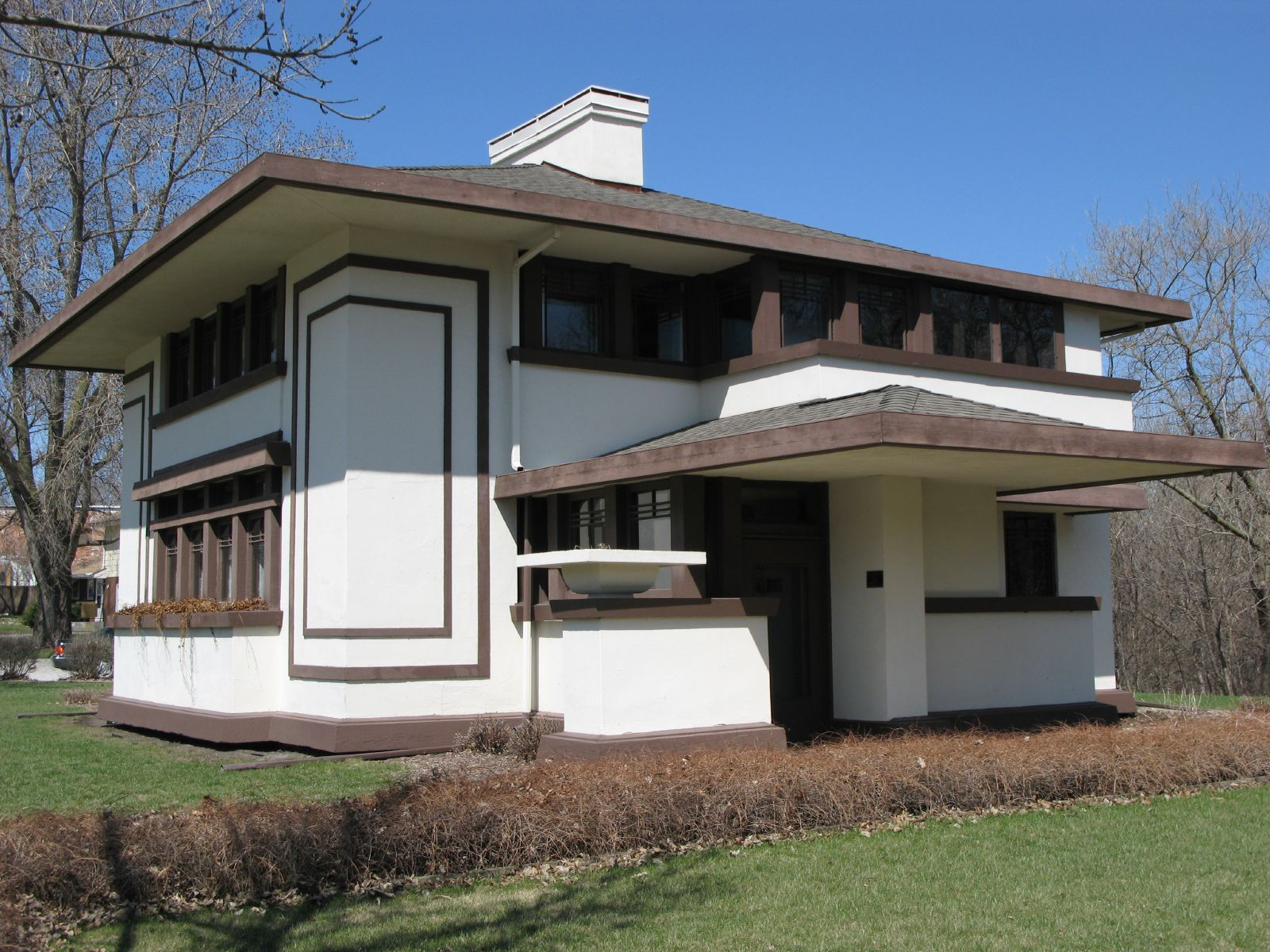 Dr. G.C. Stockman House (1908) 530 1st St. NE Mason City, Iowa Architect: Frank Lloyd Wright